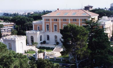 AAR building, photo by me (1995)